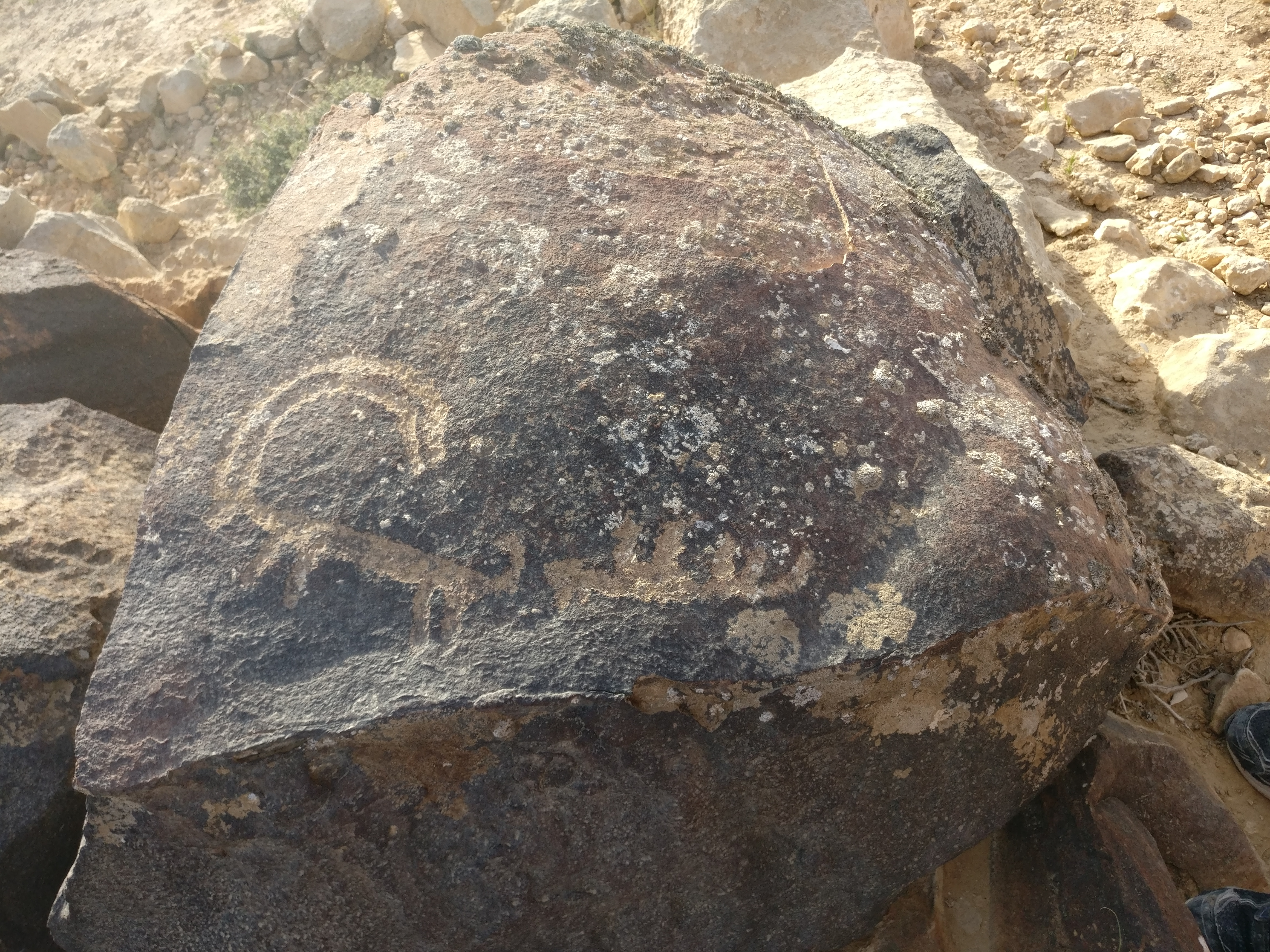 Petroglyphs at Mehia mount Israel - ibex